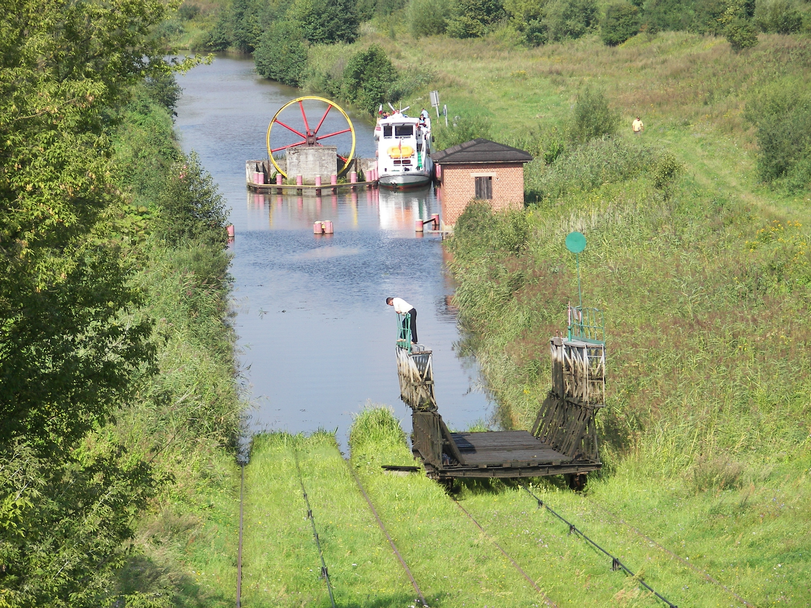 Elbląg Canal, Poland